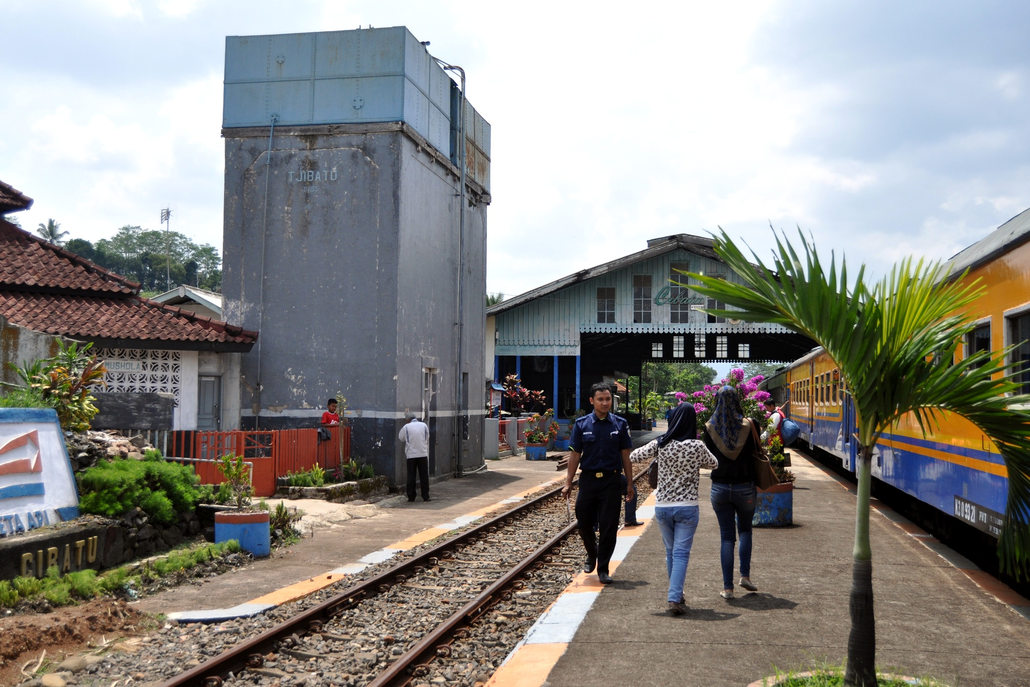 Cibatu train station near Garut, West Java, Indonesia. Near left is water torn used for supplying steam loco in the past time.